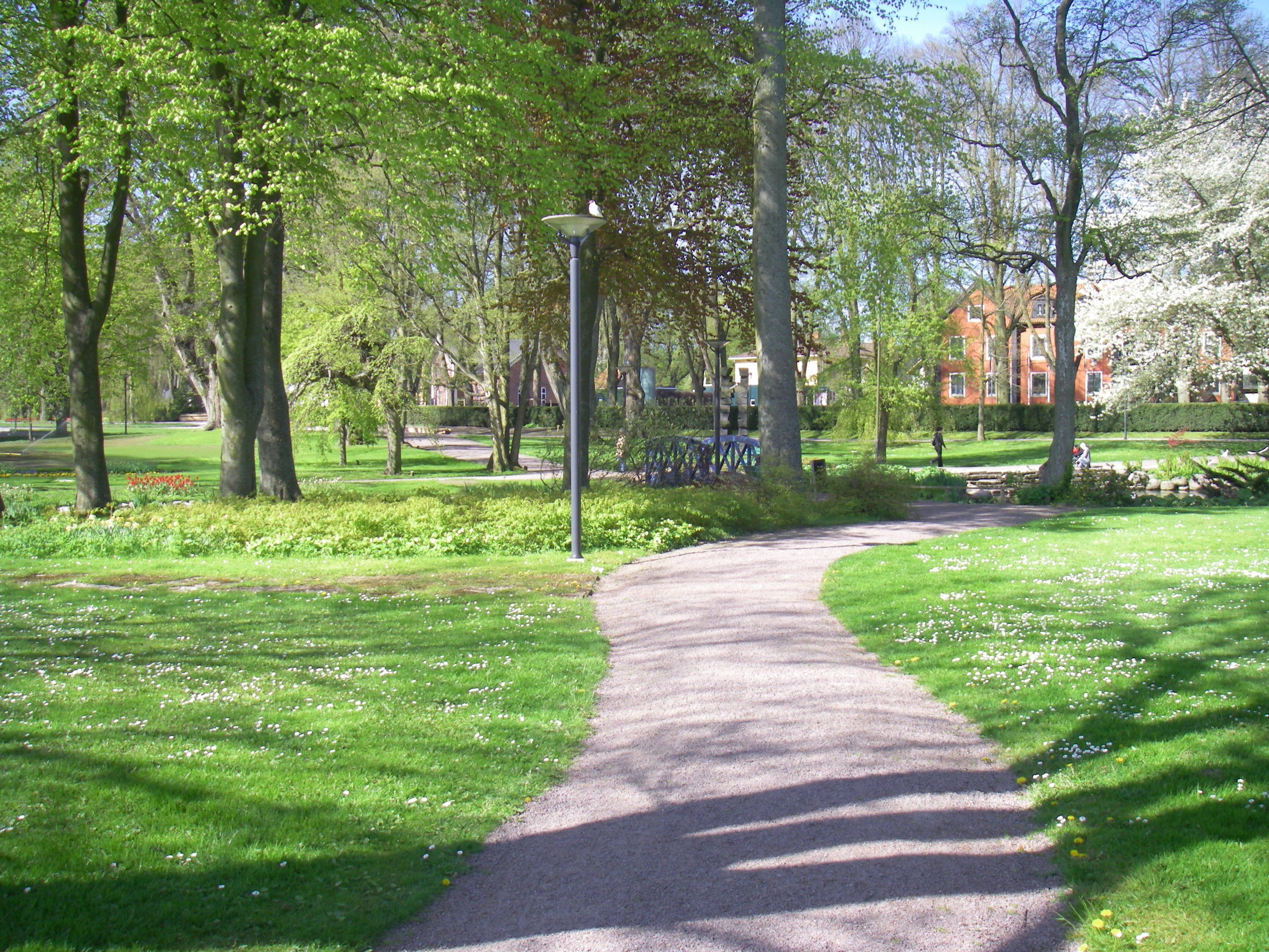 Central park in Kalmar, Sweden